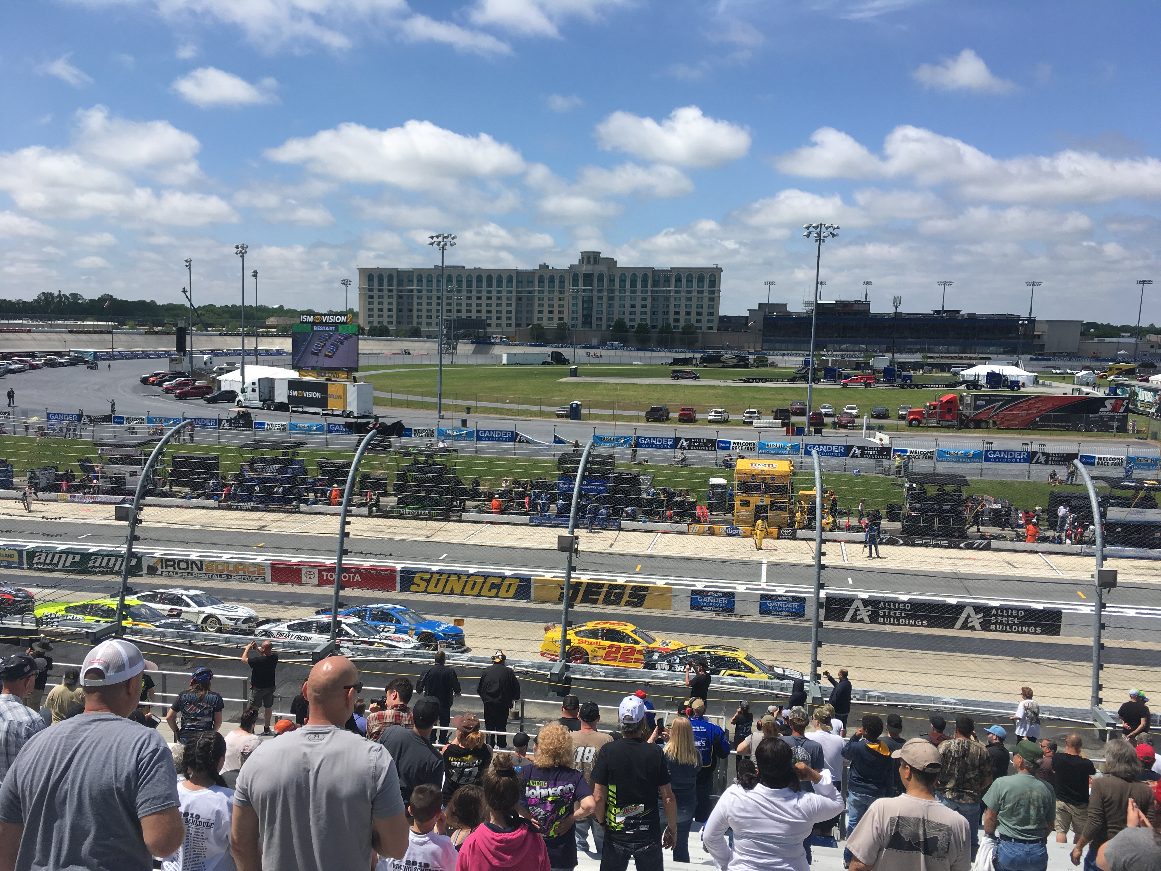 The 2019 Gander RV 400 at Dover International Speedway viewed from the frontstretch. Chase Elliott (#9) leads Joey Logano (#22) and the rest of the field following a restart.